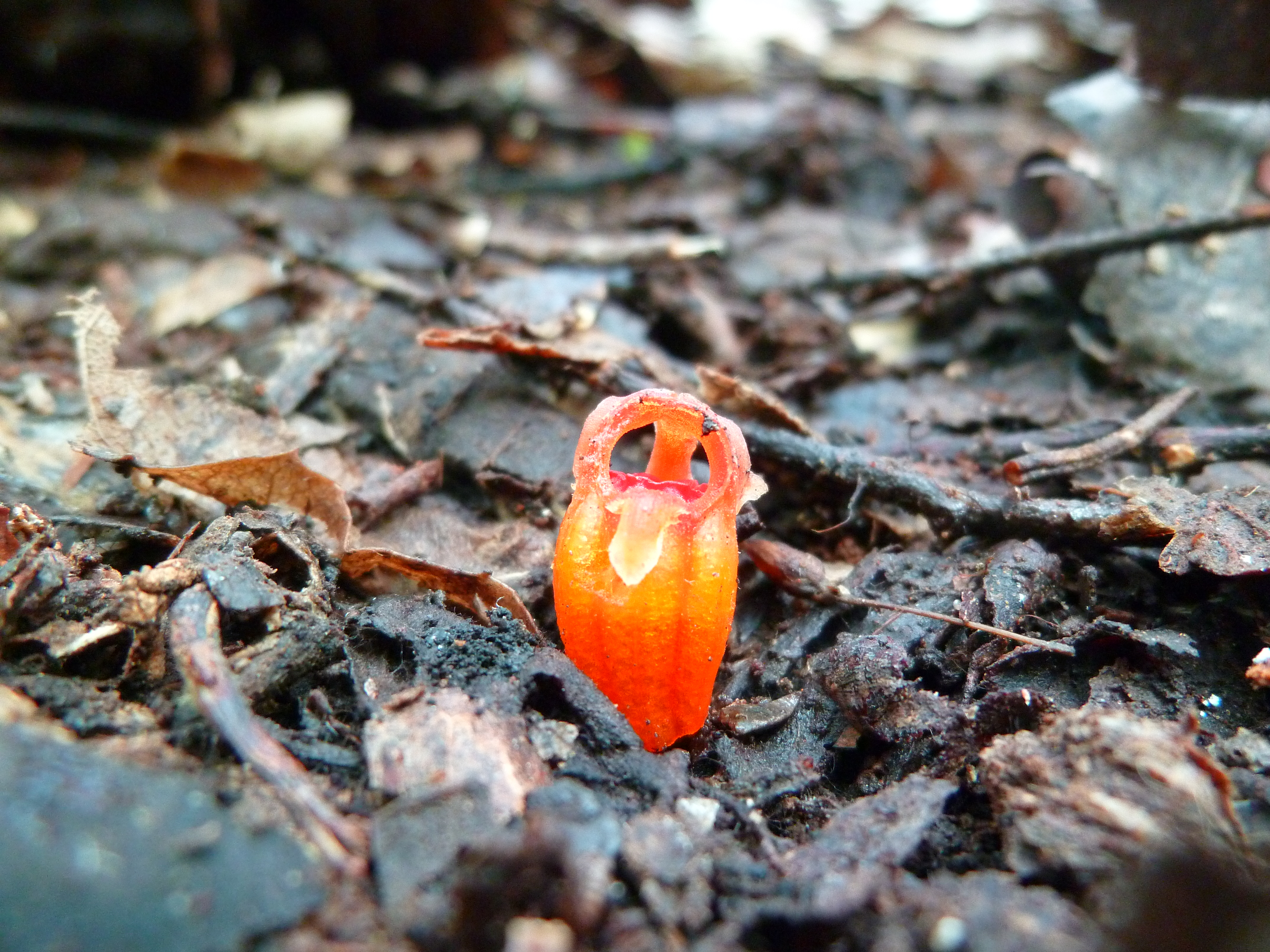 Thismia rodwayi flower found in Tassie